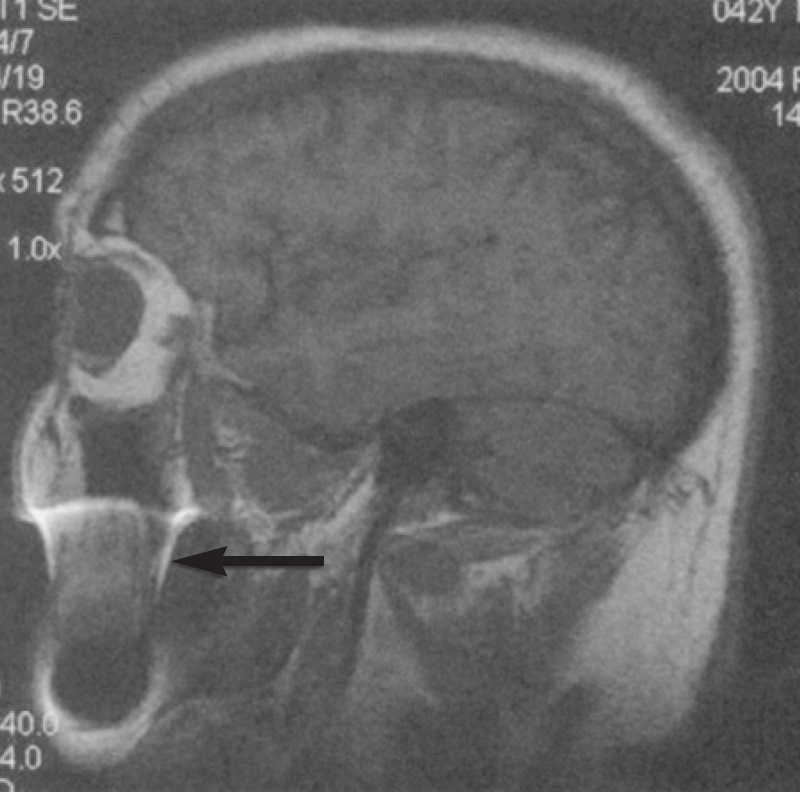 Head MRI with metal artifacts. For context, see: MRI artifact